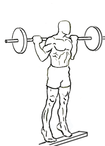 an exercise of calf